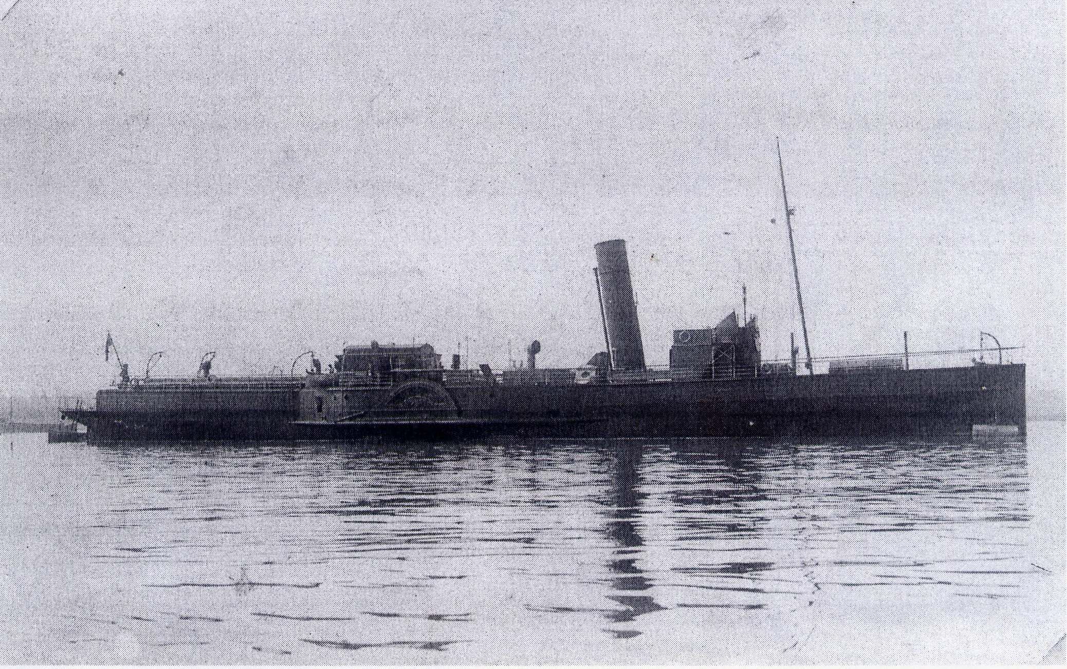 The PS Duchess Of Montrose as a minesweeper during WW1